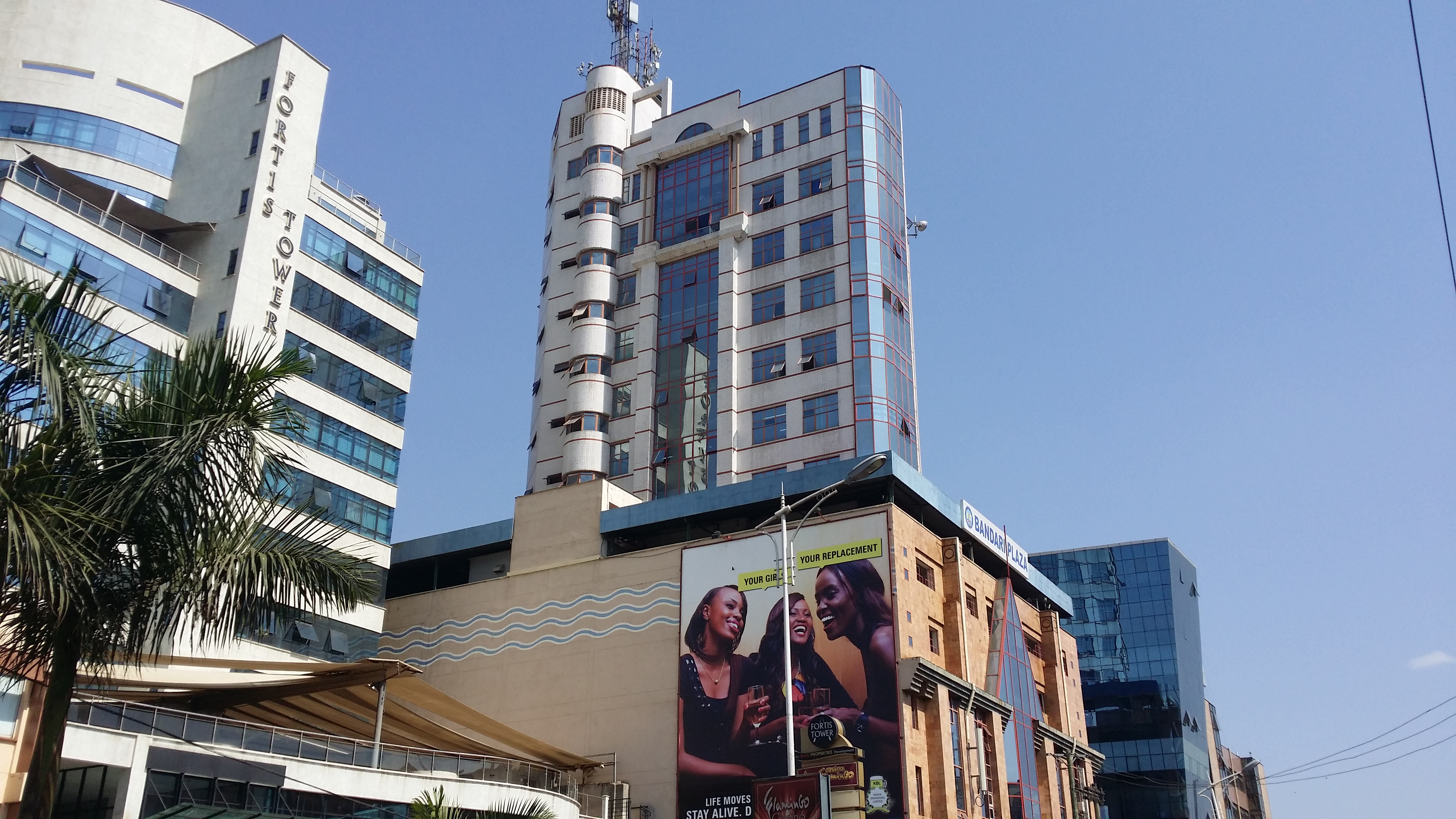 Buildings along Woodvale Grove